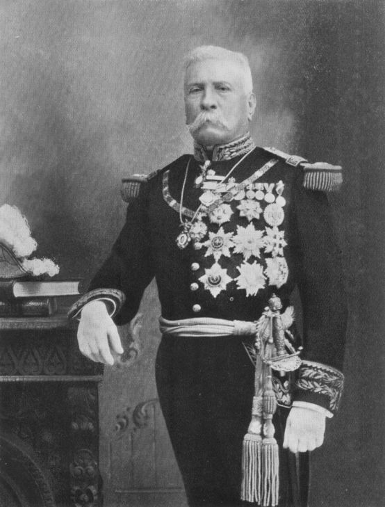 "General Porfirio Diaz (1830-1915), President of Mexico, dominating. Diaz was re-elected to the Presidency for December 1, 1884. From that period until the present day (1919) he has held the office continuously seven Presidential terms, a régime which has partaken more of the nature of a hereditary sovereignty than of an elective post. It is to be recollected, however, that in all Spanish-American countries and Mexico has been no exception- intimidation and bribery at the polls and breaches of constitutional law have been potent factors in election matters." This version of scanned Project Gutenberg image taken from